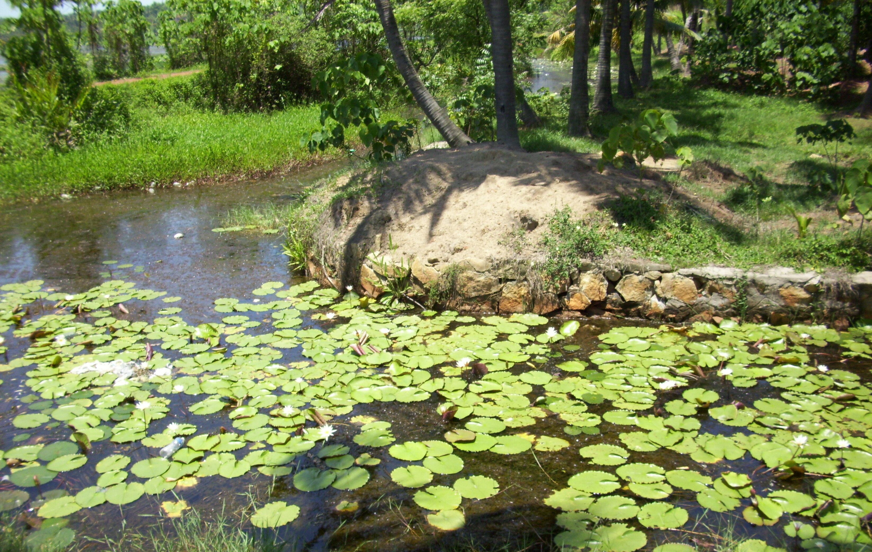 A Beautiful scene of Polachira